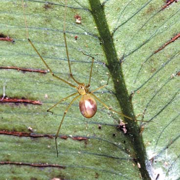 female Spermophora yanbauensis from Okinawa.